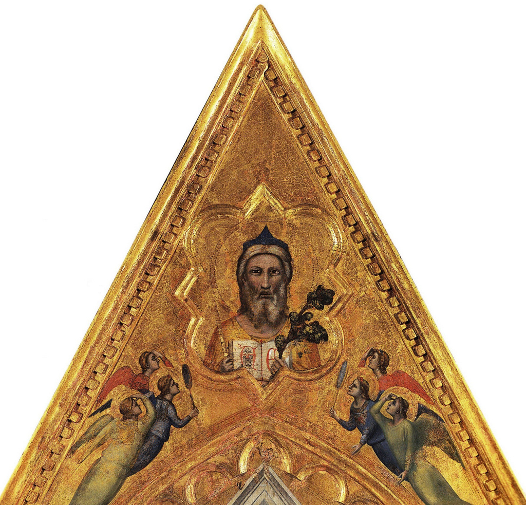 Christ by Giotto, from the Rimini Cross, private collection, London